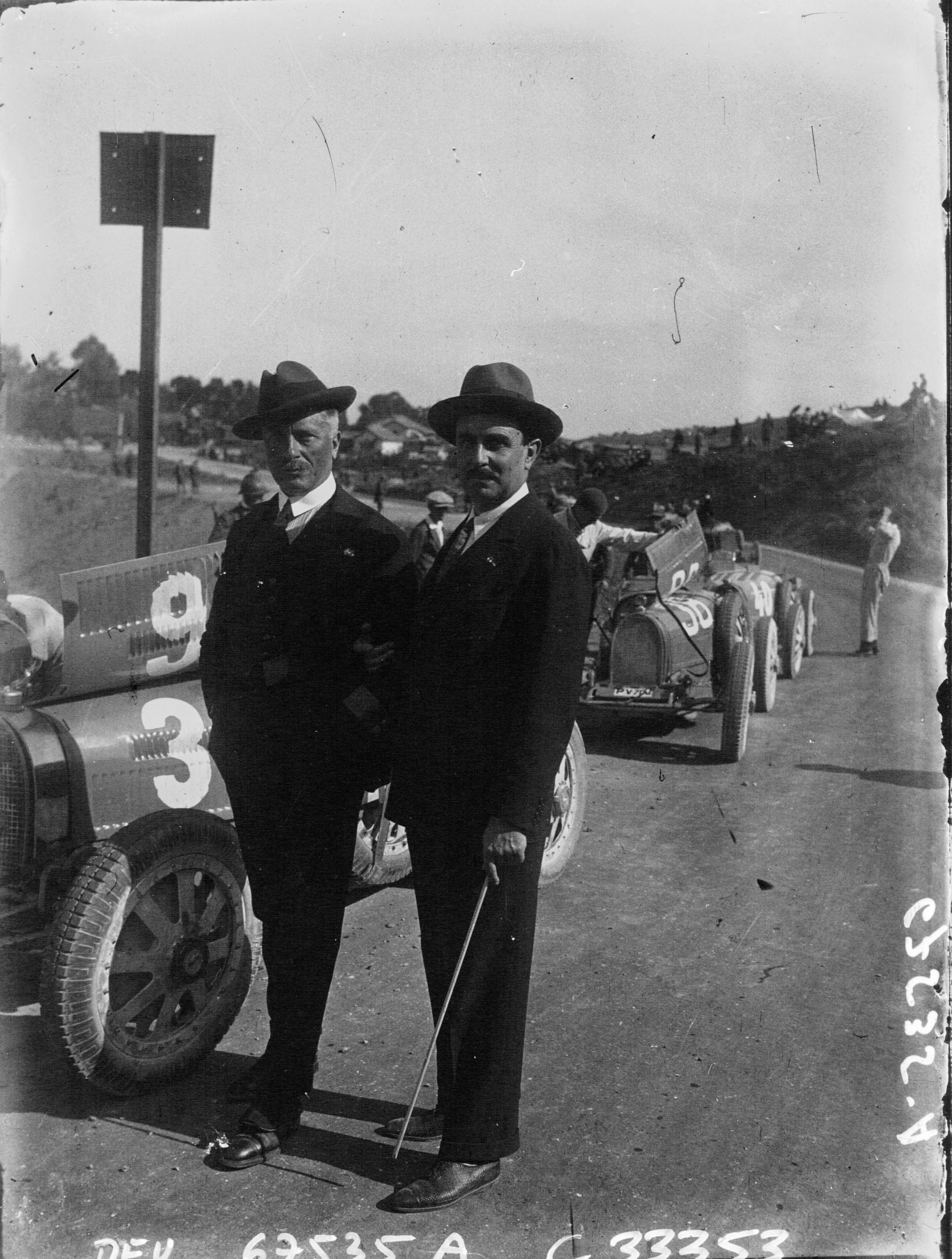 Florio and Mercanti at the 1929 Targa Florio.